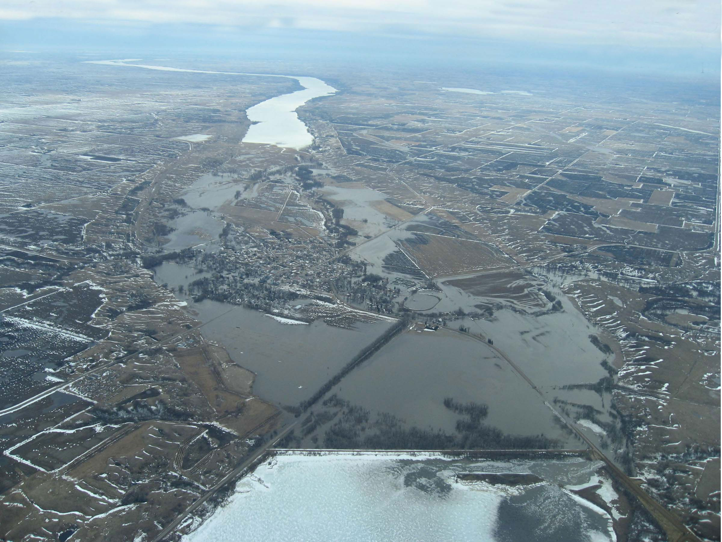 Aerial photograph showing the Traverse Gap in Minnesota and South Dakota and flooding at Browns Valley, Minnesota, from ice-covered Lake Traverse (bottom of frame), south to Big Stone Lake (top of image). Interbasin flooding is shown: The Little Minnesota River, which originates in the Mississippi watershed, enters the Traverse Gap from the west (right) and flows south to Big Stone Lake, is flooding the gap and Browns Valley (center); at the lower right floodwaters are crossing the continental divide into Lake Traverse in the watershed of Hudson Bay.